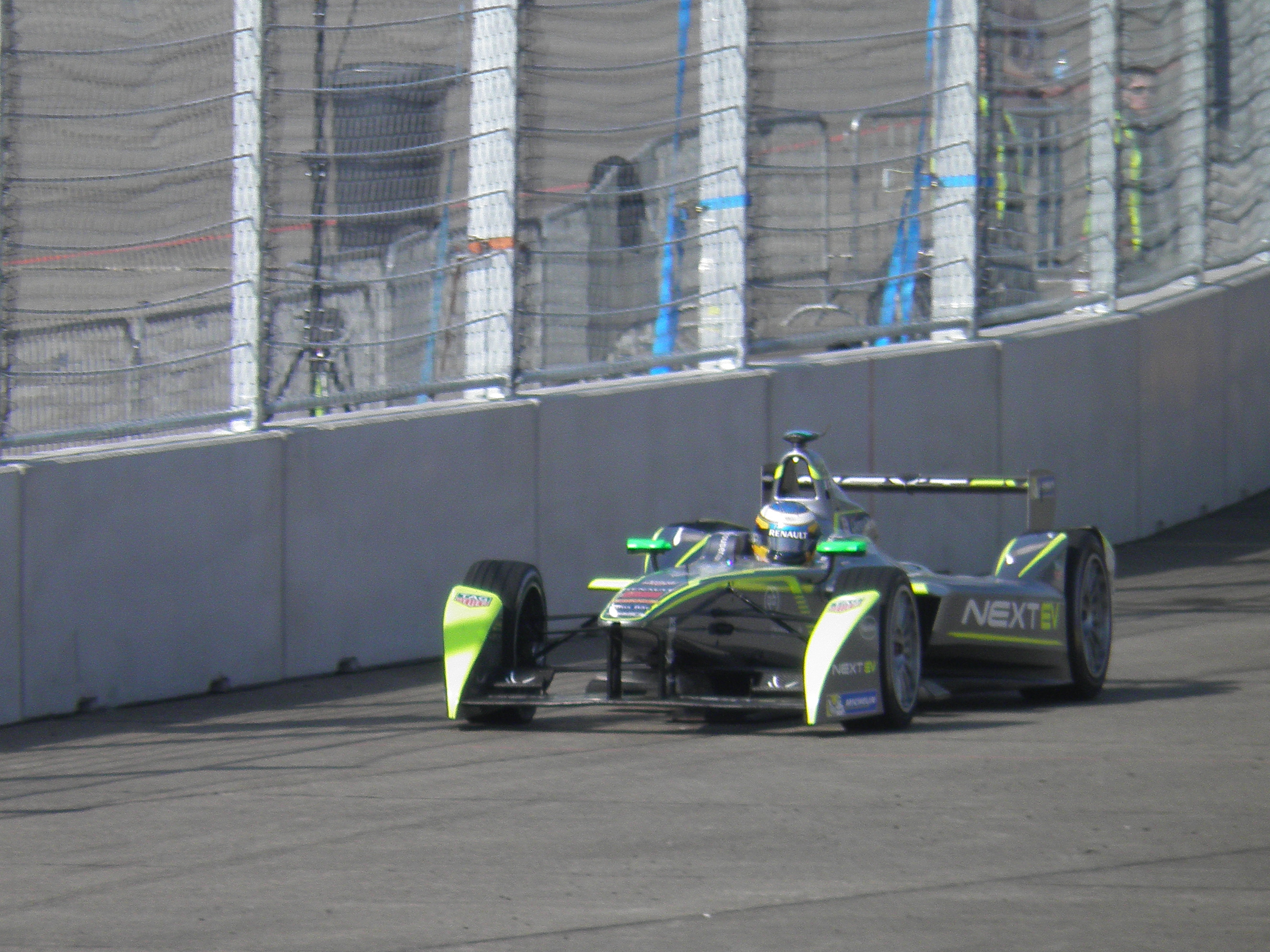 Charles Pic, NextEV TCR, driving in Berlin ePrix on May 23, 2015